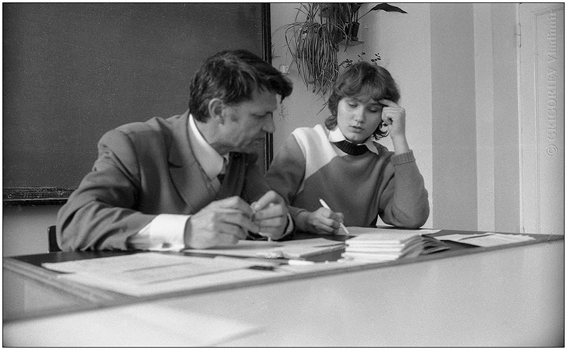 Examination at the Faculty of Mathematics of Petrozavodsk State University.